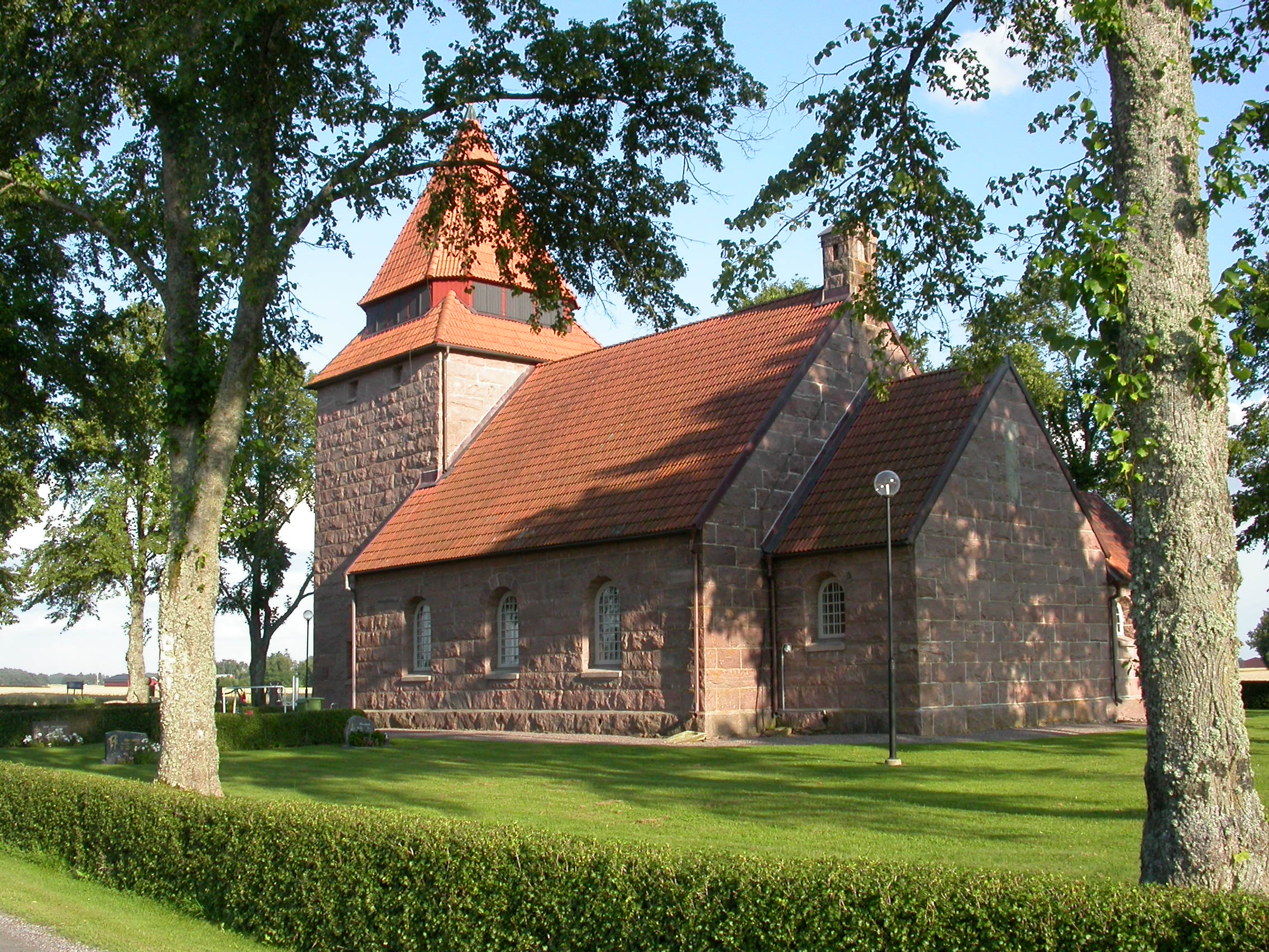 Church of Härjevad, built 1915